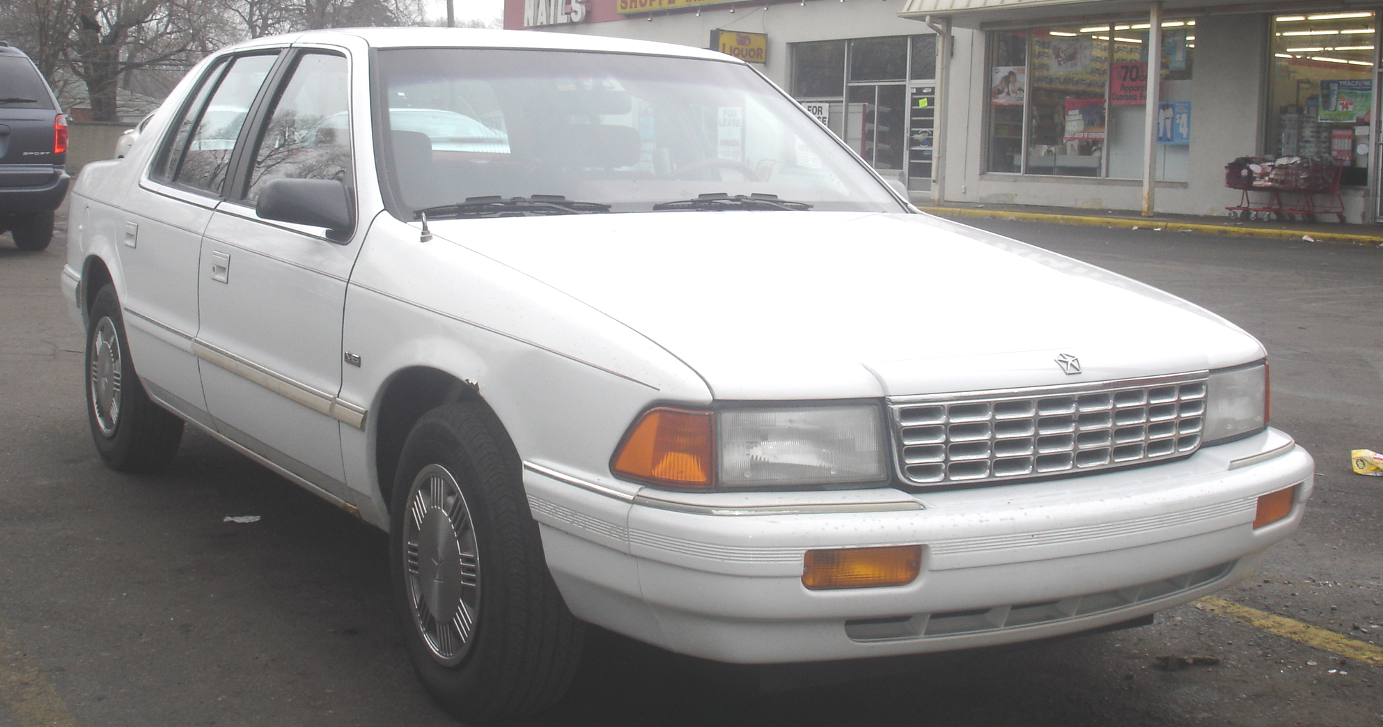 1993 Plymouth Acclaim